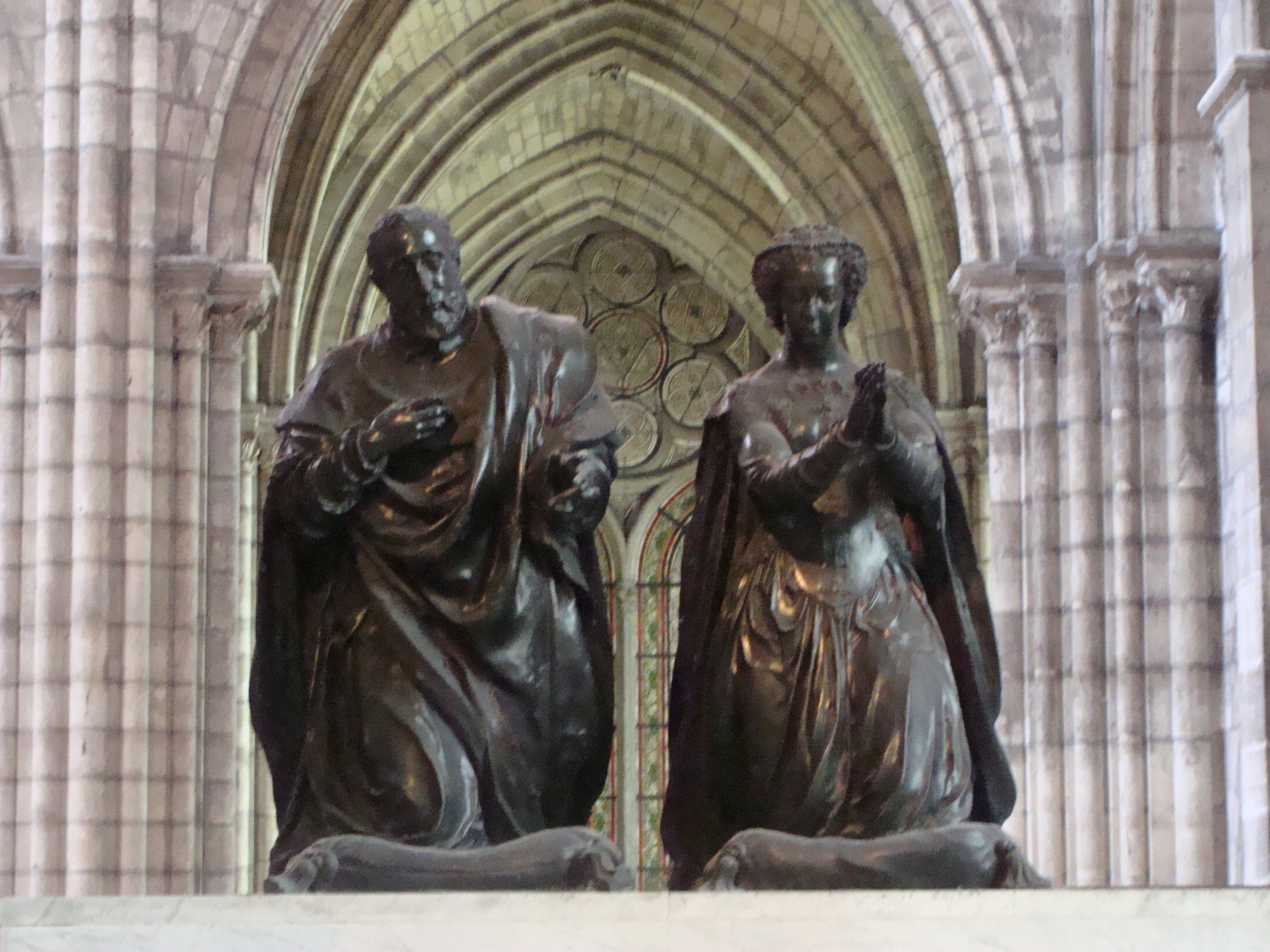 Memorial to Henri II and Catherine de Medicis